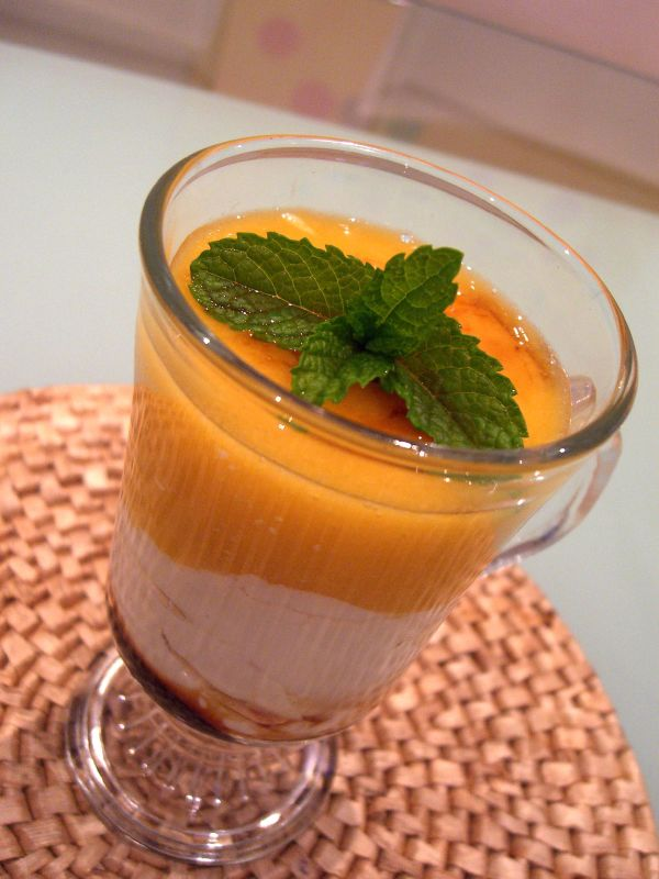 Inspired by what we had in Hongkong, we tried our hand at making a HK-style dessert, ????? Mango and Beancurd Dessert, with a little caramel sugar syrup. It was cool and smooth. A nice end to dinner on a warm night. ... but, it's a pity that Australian mangoes aren't as fragrant as Asian ones.